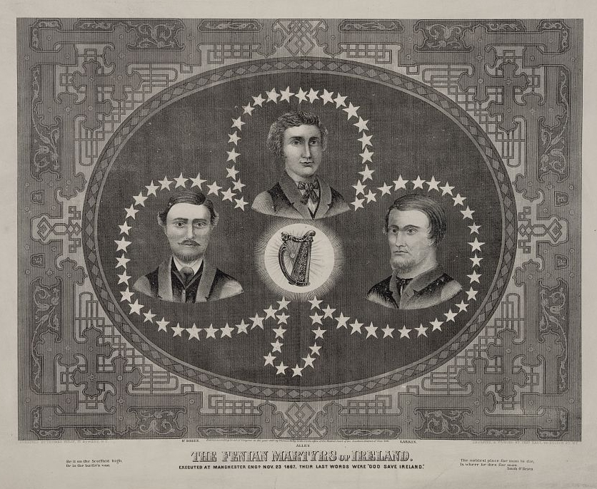 The Manchester Martyrs. William O'Brien, William Allen and Michael Larkin in a shamrock. "The Fenian martyrs of Ireland. Executed at Manchester, England, Nov. 23, 1867. Their last words were 'God save Ireland'."